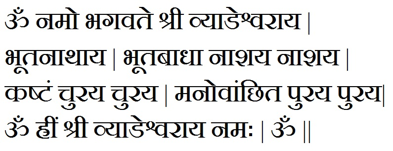 Shri Vyadeshwar Mantra